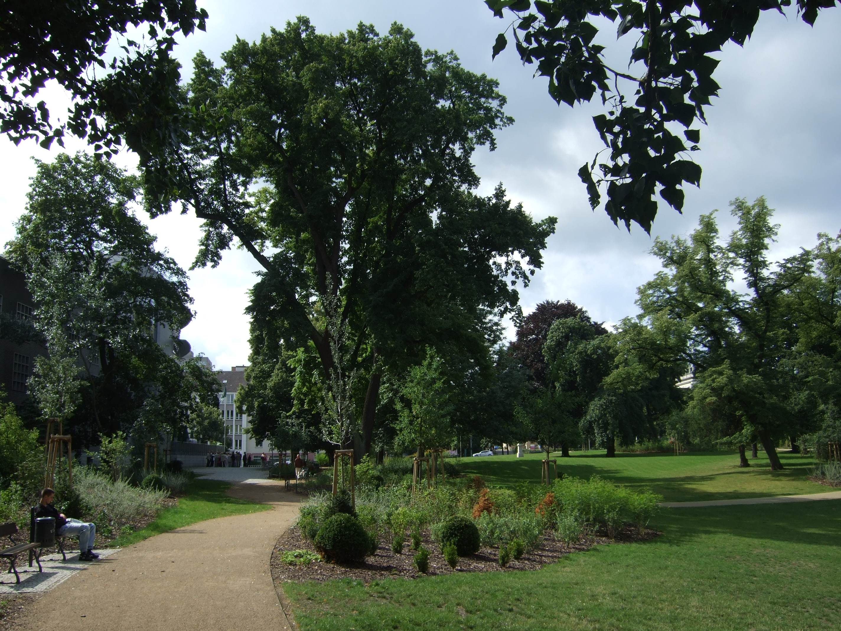 Lennépark Frankfurt (Oder), Germany.